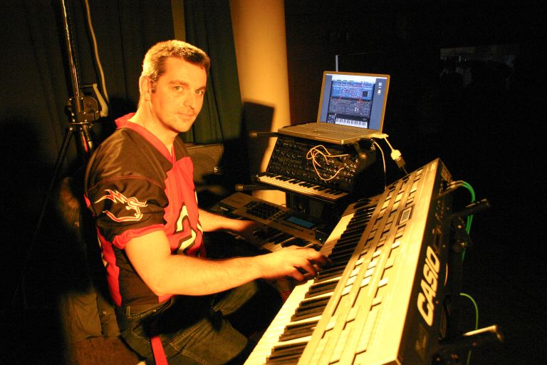 Erik Seifert in 2005